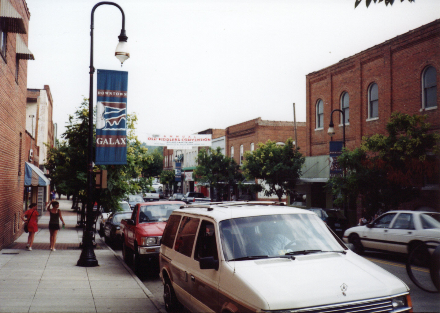 Downtown Galax, Virginia, United States. Photo taken August 1998 during the 1998 Old Fiddler's Convention in Galax, Virginia, United States. Self-made photo.